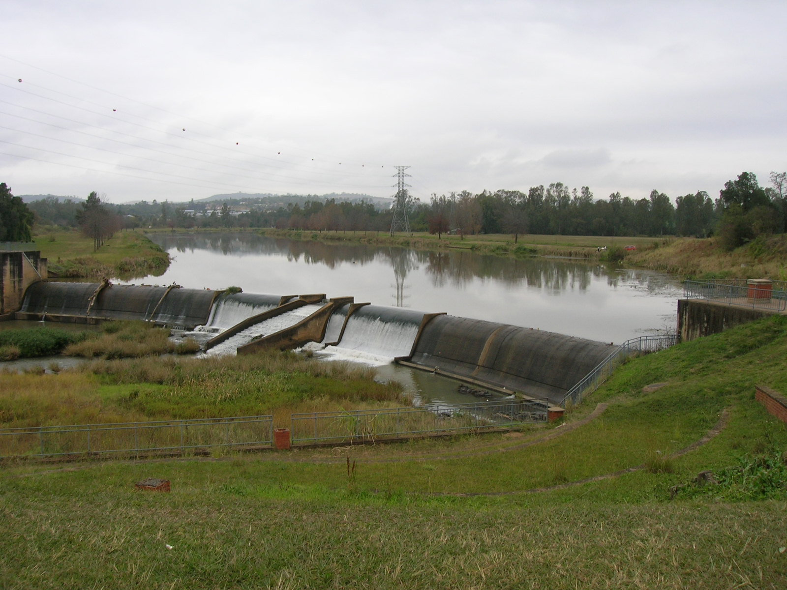 The Msunduzi River, in a stretch passing through Pietermaritzburg, South Africa, showing the weir that creates Camps Drift, a section used for canoe and rowing practice.